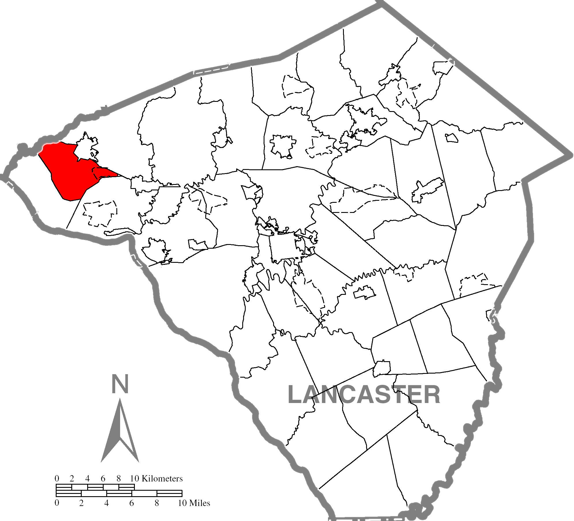 Highlighted Lancaster County map of West Donegal Township.